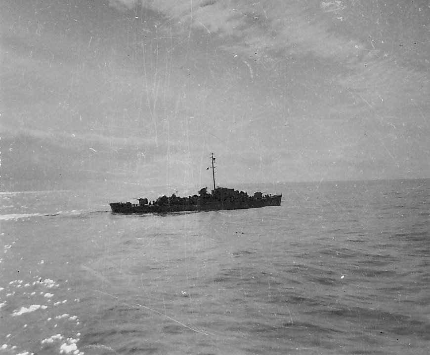 The U.S. Navy destroyer escort USS William Seiverling (DE-441) underway off the Korean coast, in 1951.